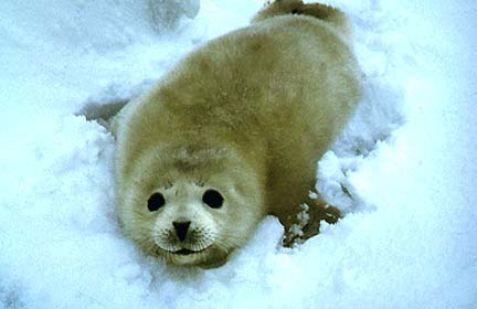 Spotted seal (Phoca largha)